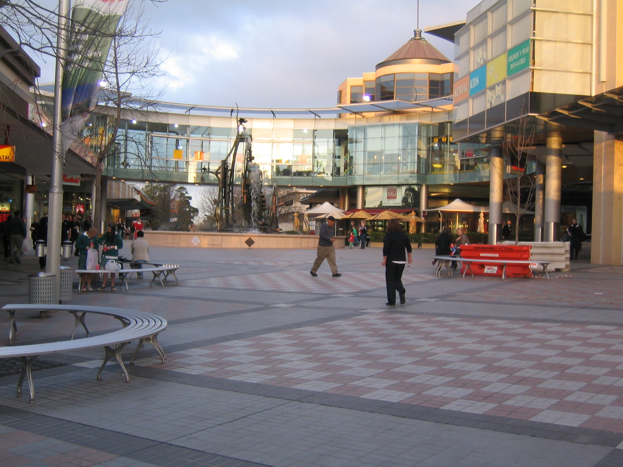 Hornsby Mall with its fountain and Westfield shopping centre in the background. Photo by the author.